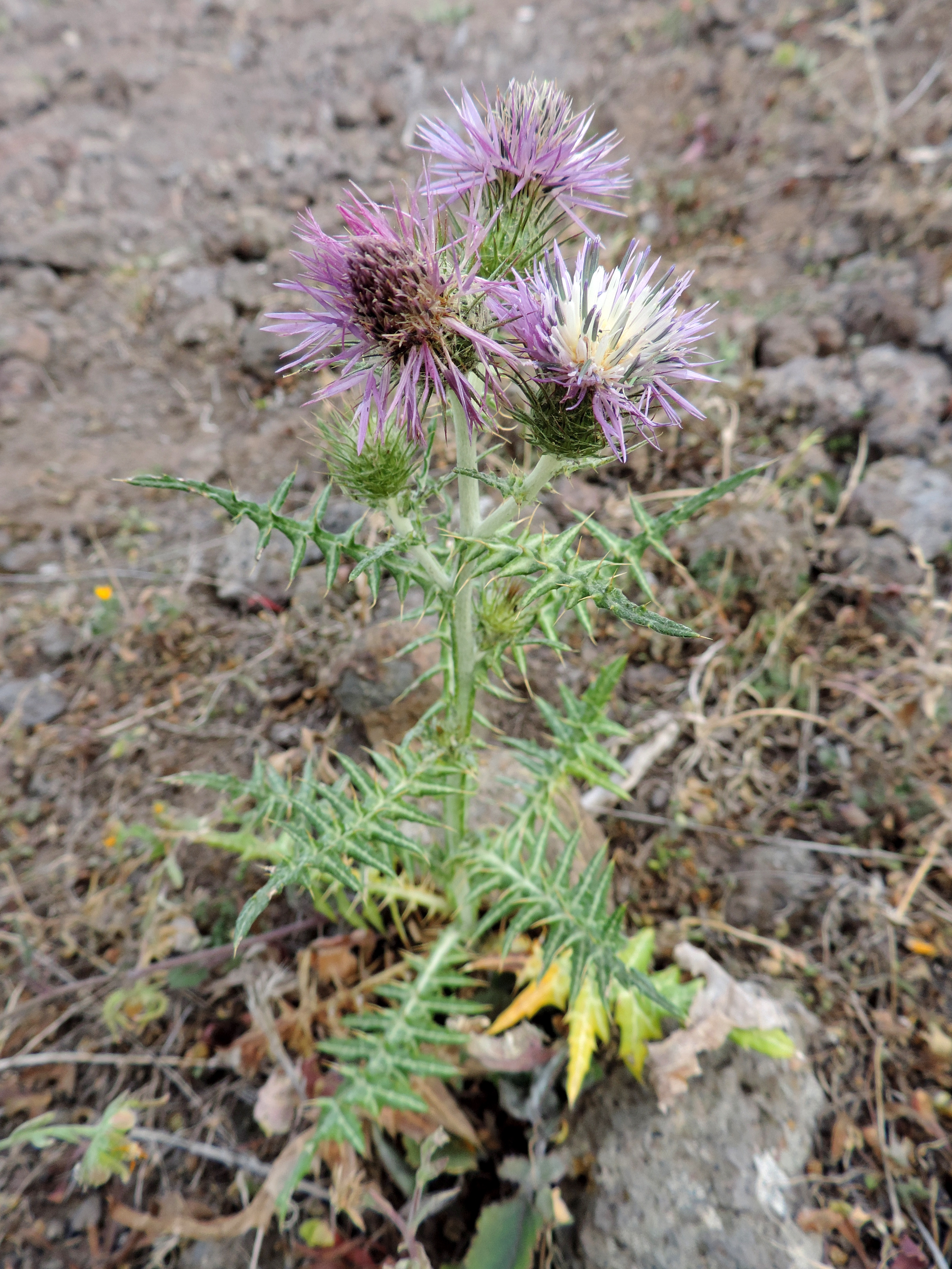 Galactites tomentosa near Casas de Araza in vicinity of Santiago del Teide, Tenerife, Canary Islands